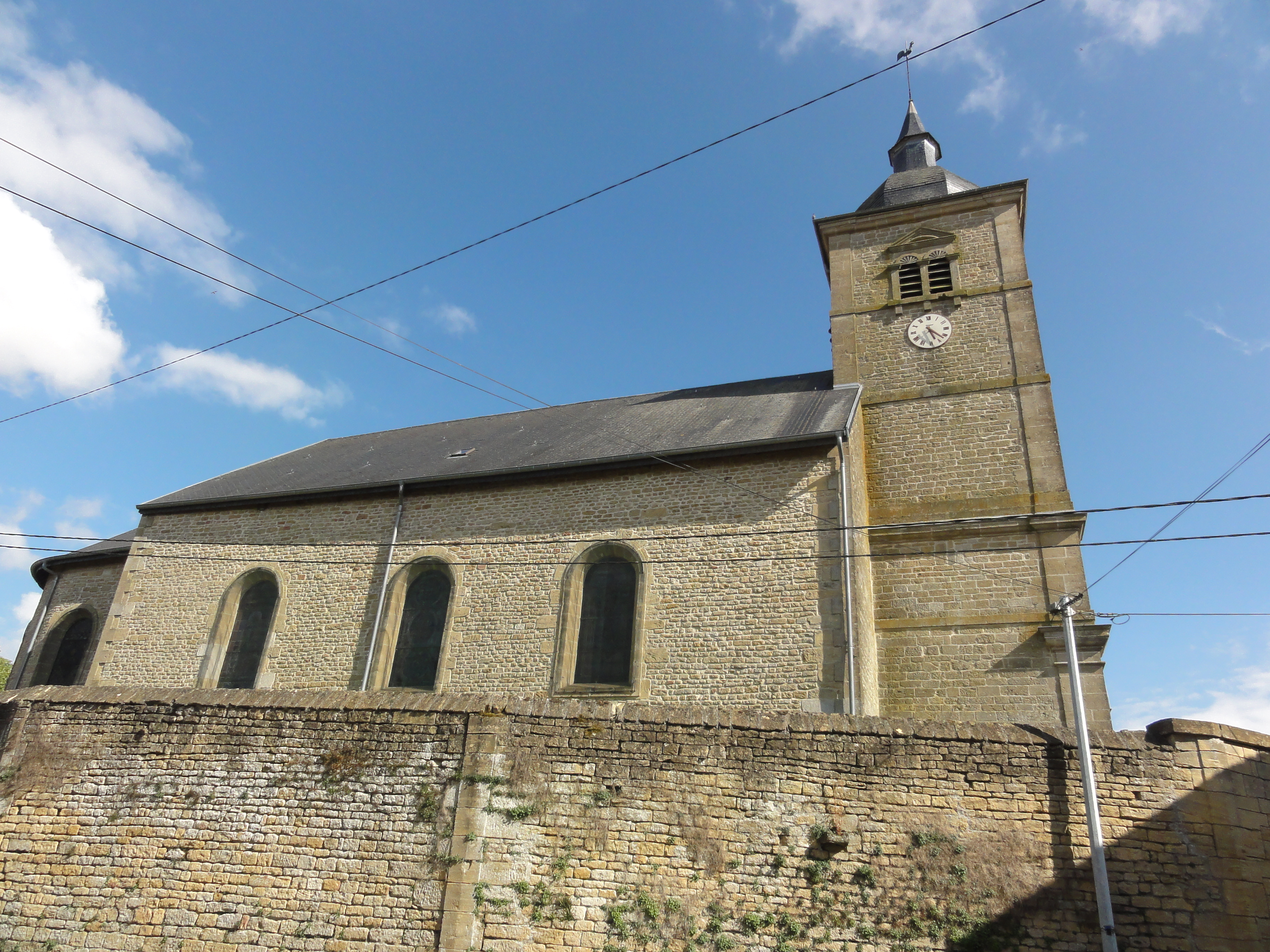 Ville-au-Montois (Meurthe-et-M.) église